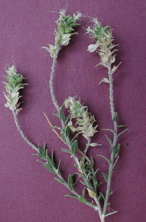 Petalonyx thurberi, Sandpaper Plant growing in sandy soil along the Gila River in Maricopa County, Arizona, USA.